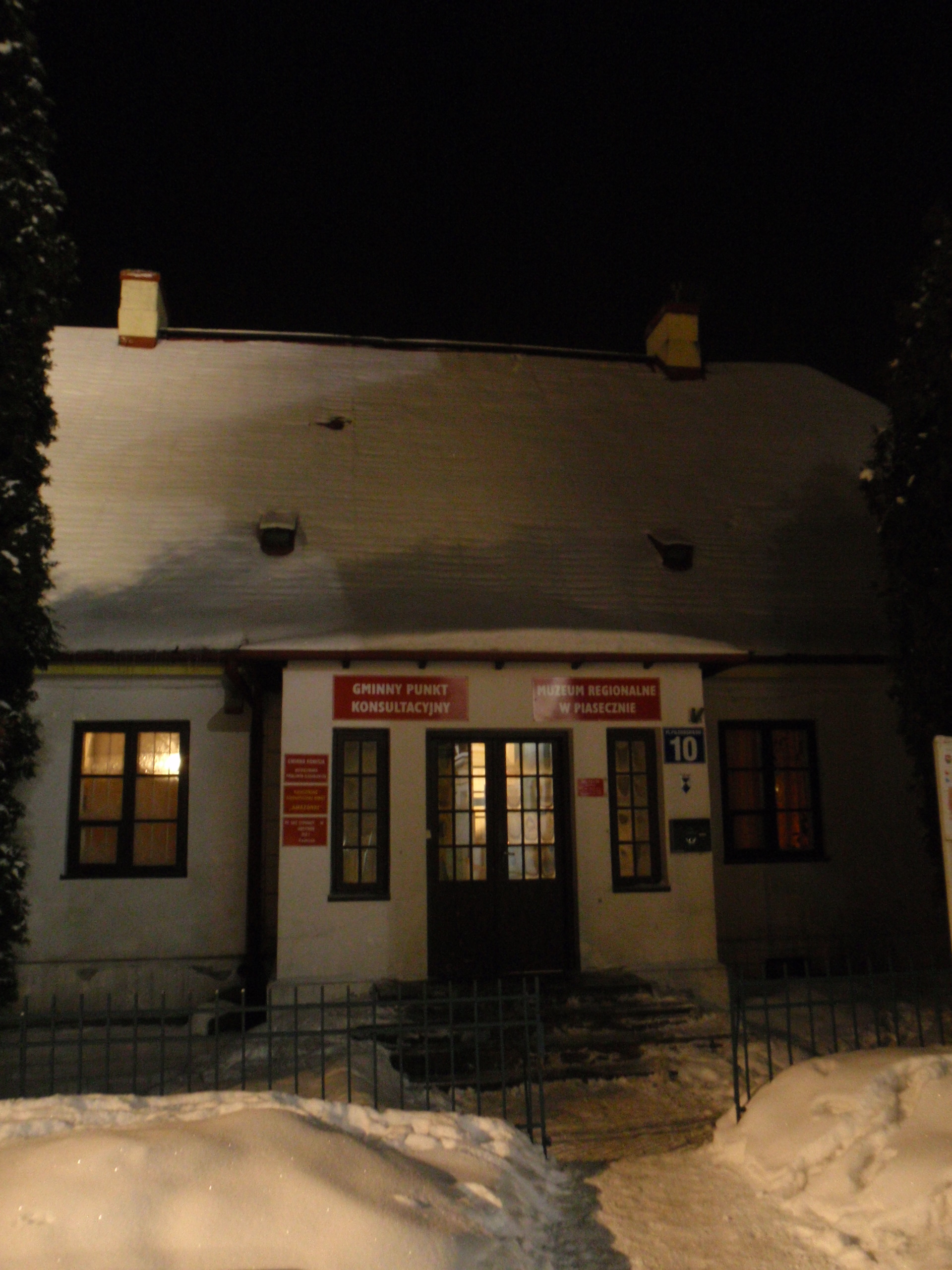 Not exist Regional Museum in Piaseczno in building of the old presbytery.